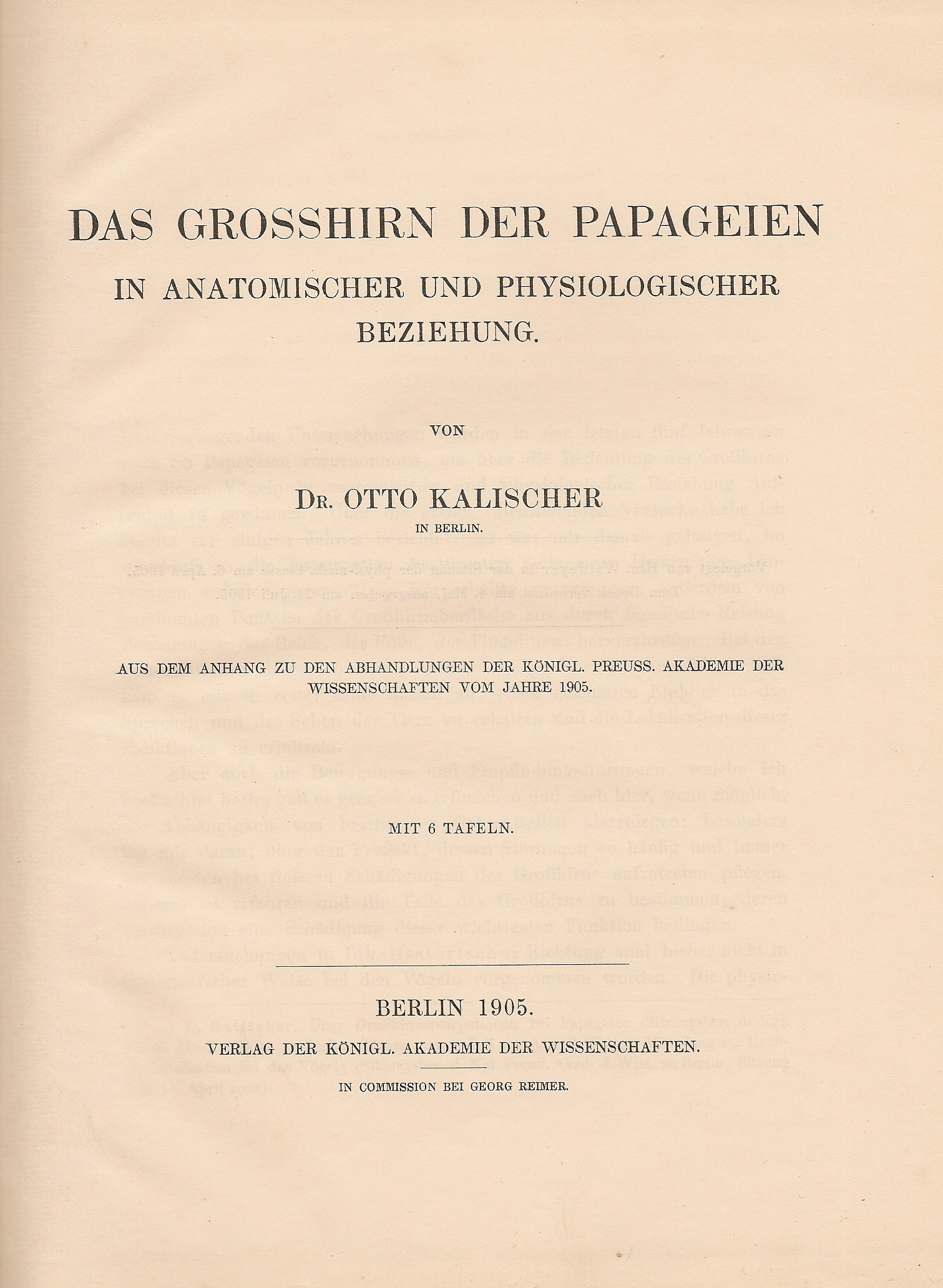 Title page of Otto Kalischer's 1905 book